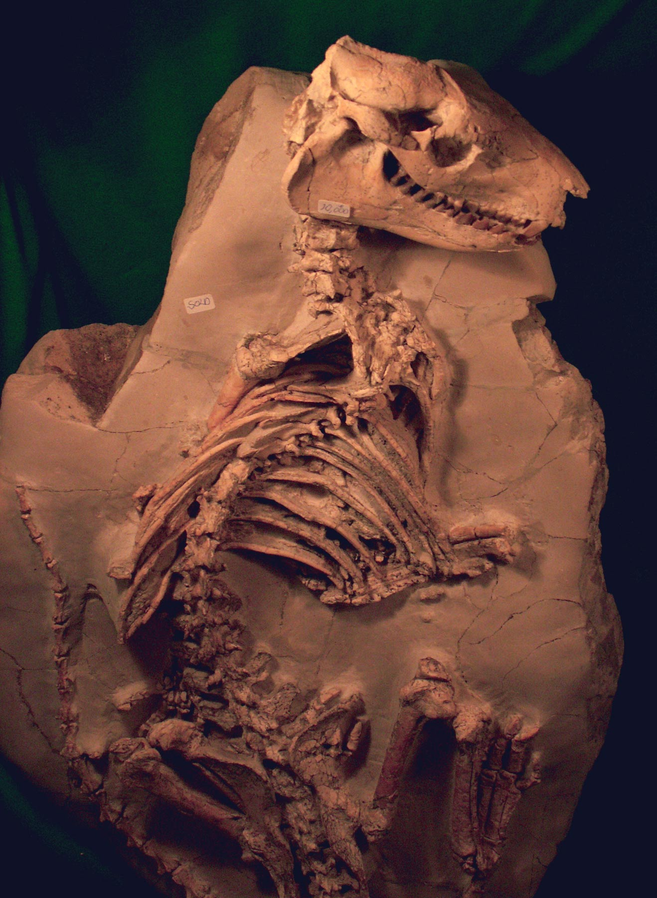 Merycoidodon? A common display of fascinating fossils, this one is marked "sold", at a dealer room inside the Inn Suites venue of the Tucson Gem & Mineral Show.